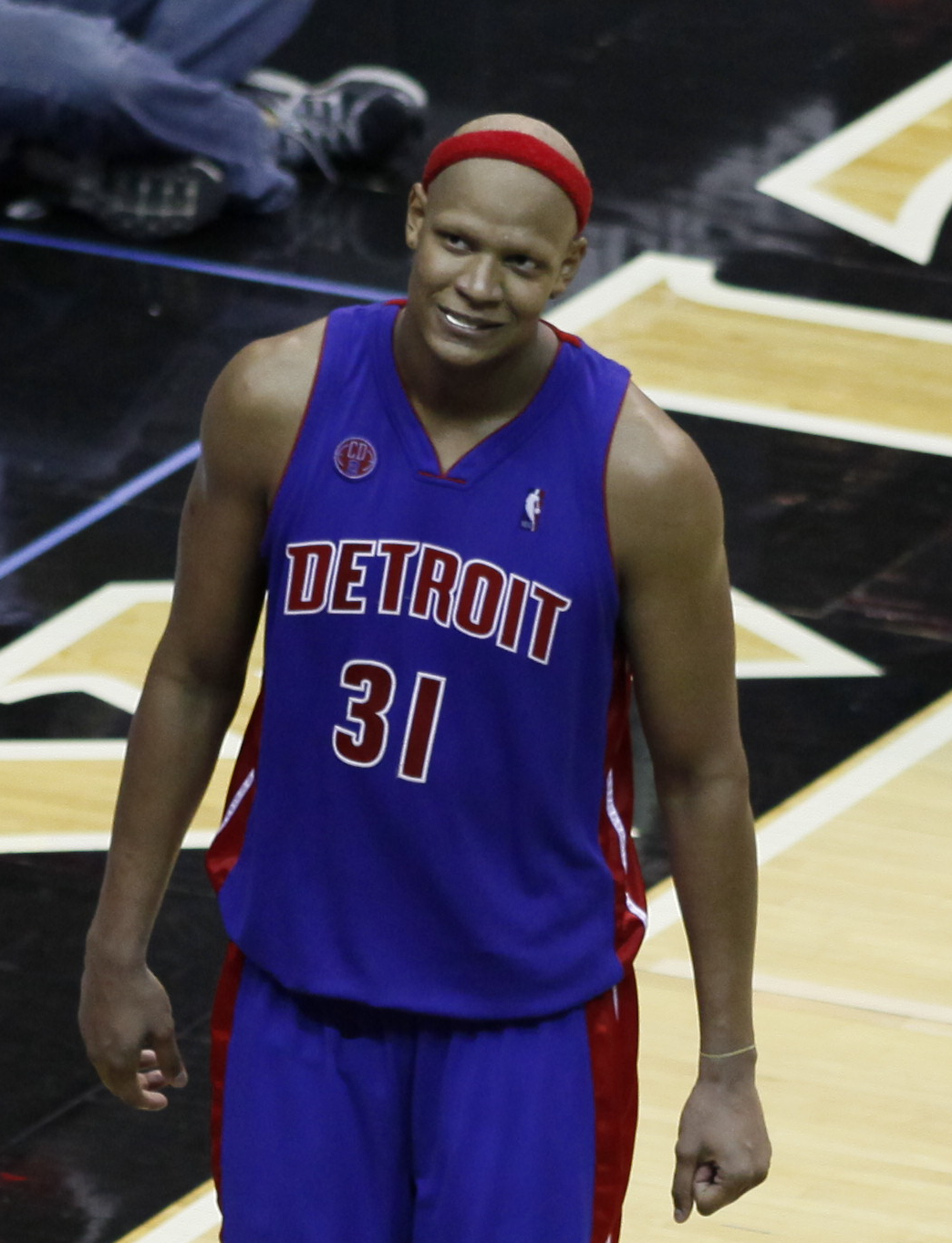 Charlie Villanueva of the Detroit Pistons. From Washington Wizards v/s Detroit Pistons November 14, 2009 at Verizon Center in Washington, D.C.